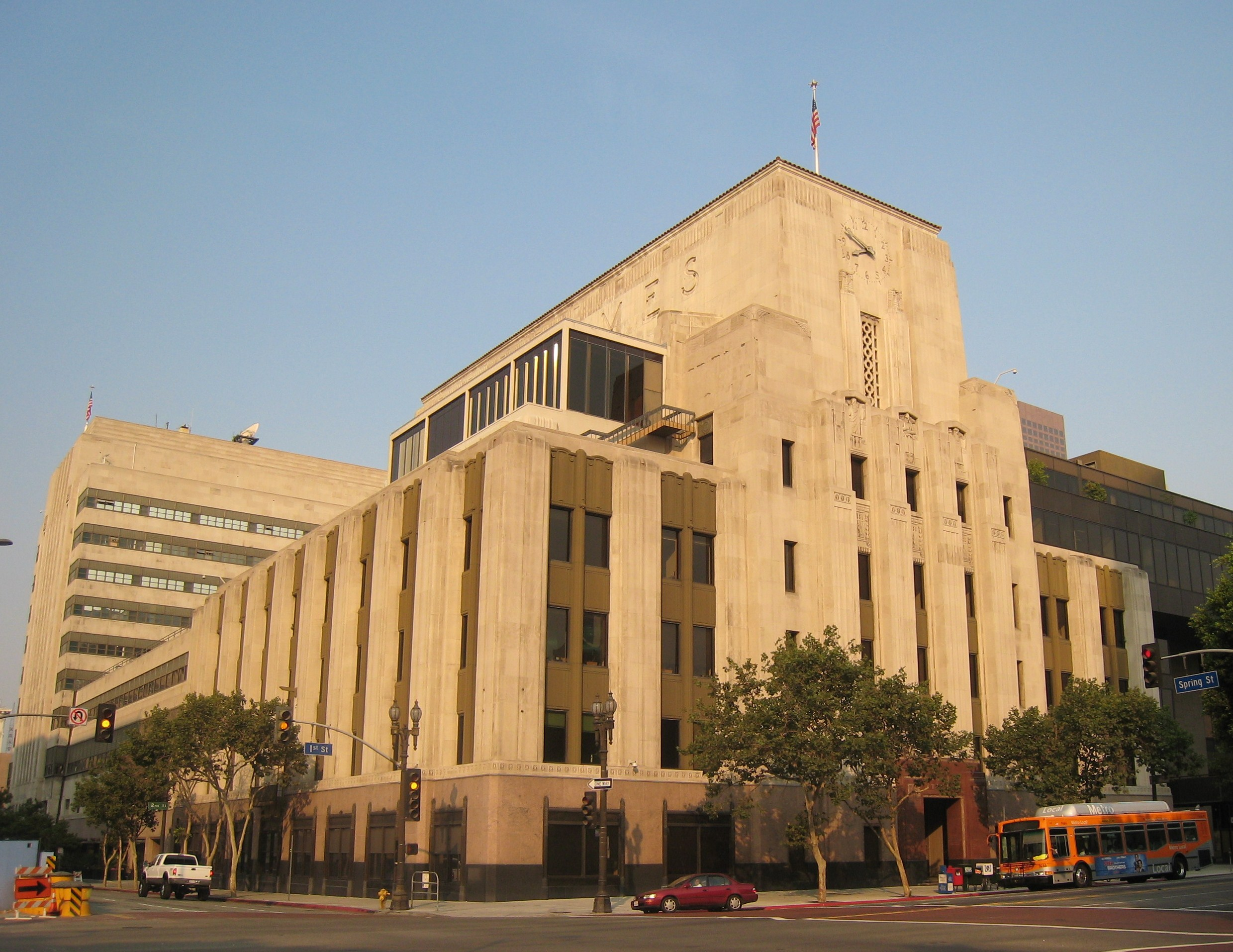 Los Angeles Times Building — in Downtown Los Angeles, California. The Art Deco building was designed by Gordon Kaufmann.